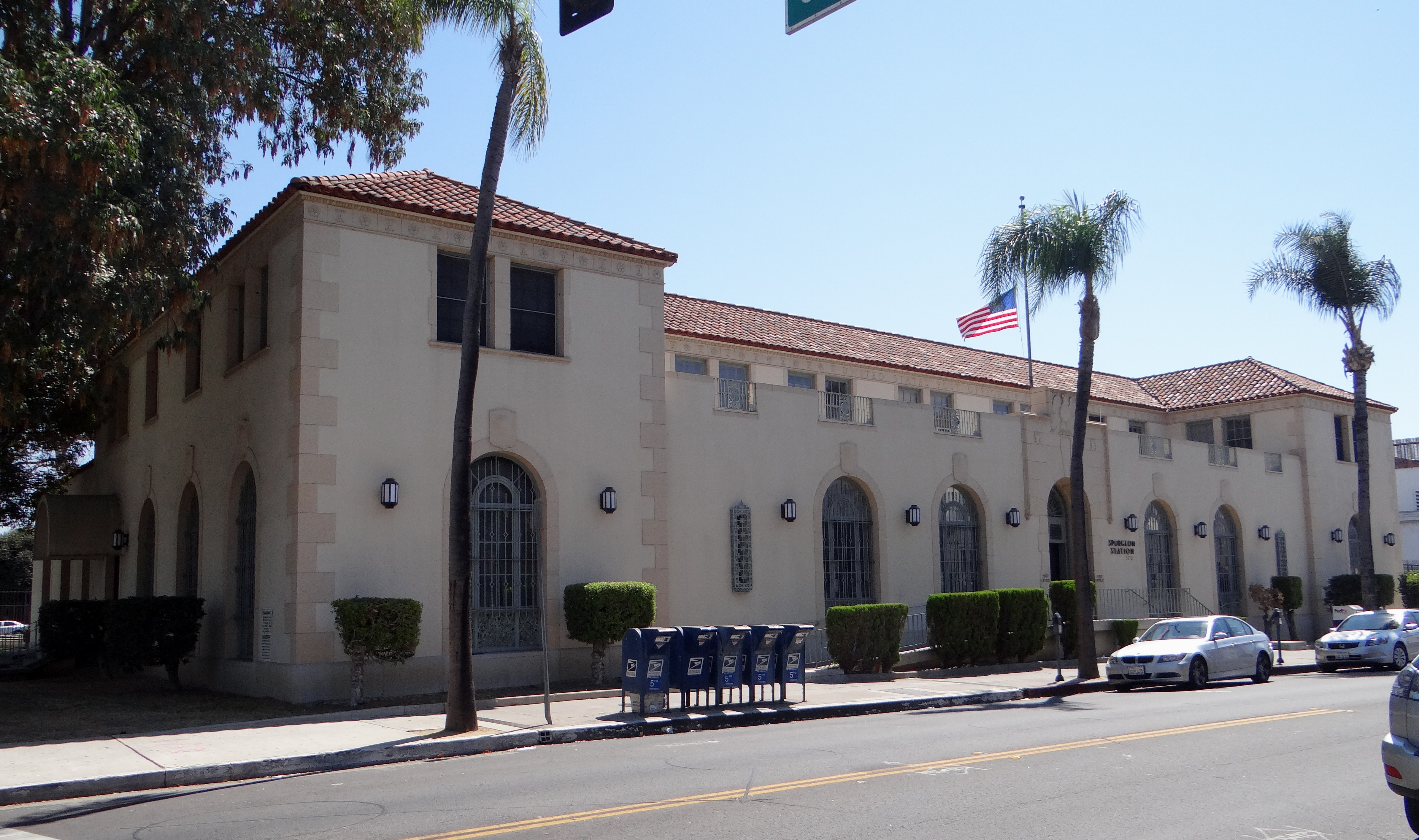 US Post Office Station-Spurgeon Station